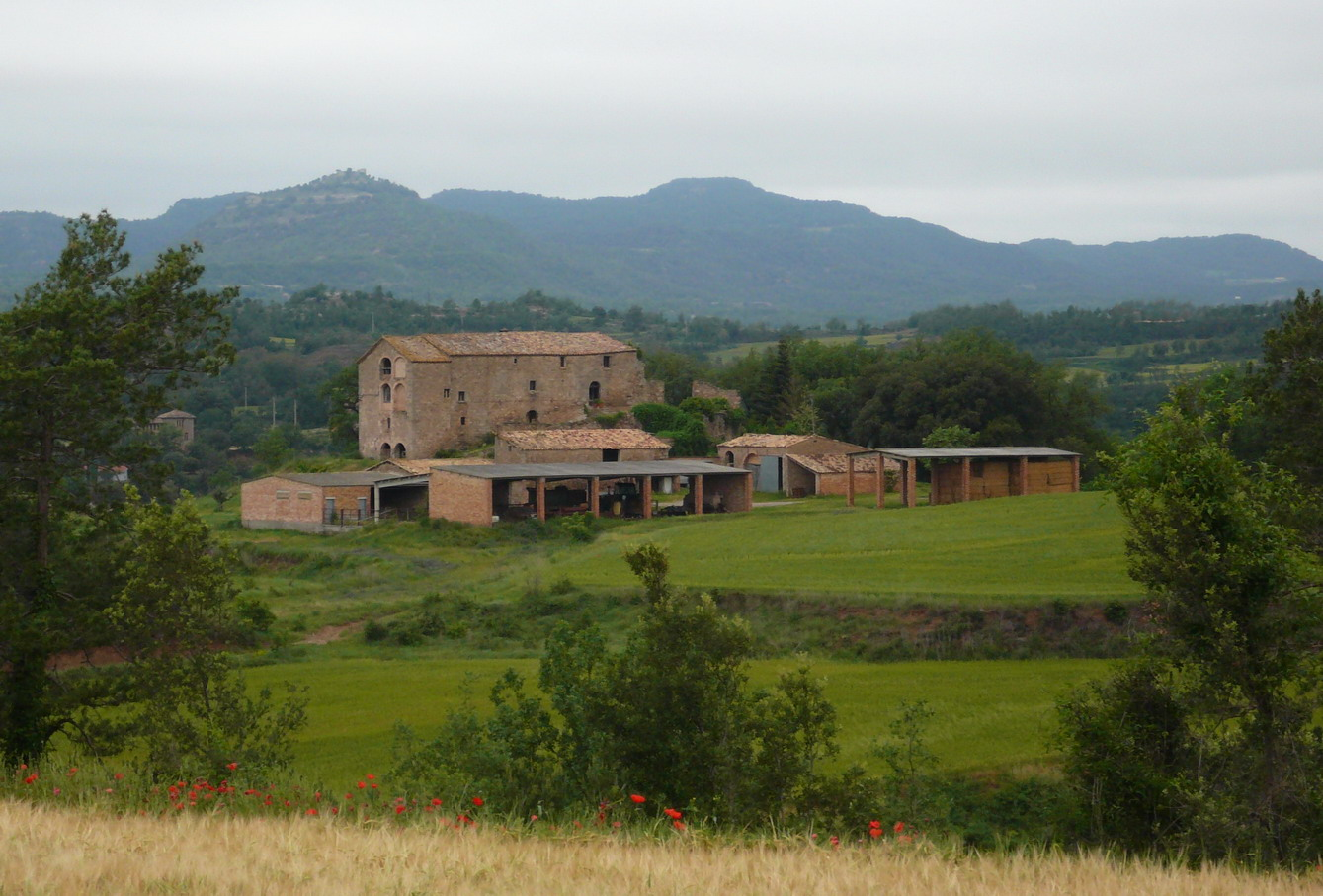 Vilatammar, Sant Martí d'Albars, Osona, Catalonia, seen from near Casanova del Puig